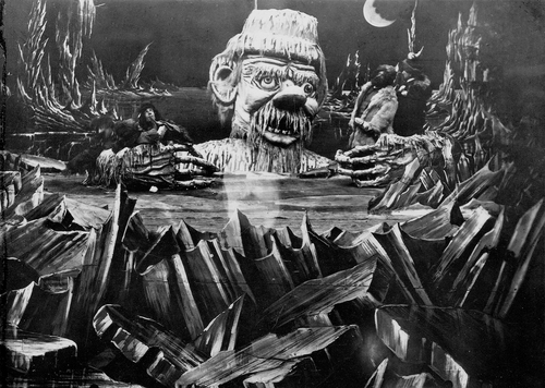 Conquest of the Pole screenshot